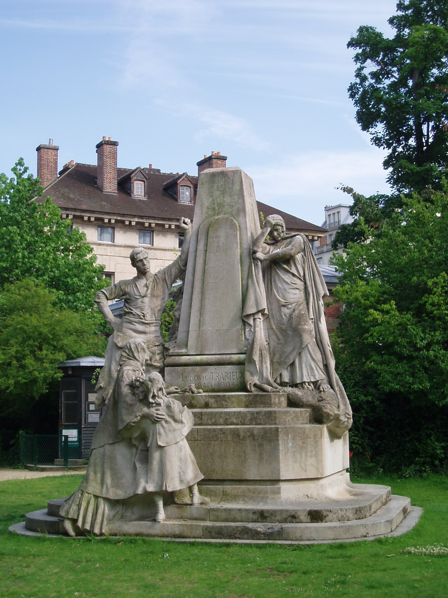 Monument to Ludovic Trarieux by Jean Boucher. Photographed in Square Claude-Nicolas Ledoux, Paris, France.